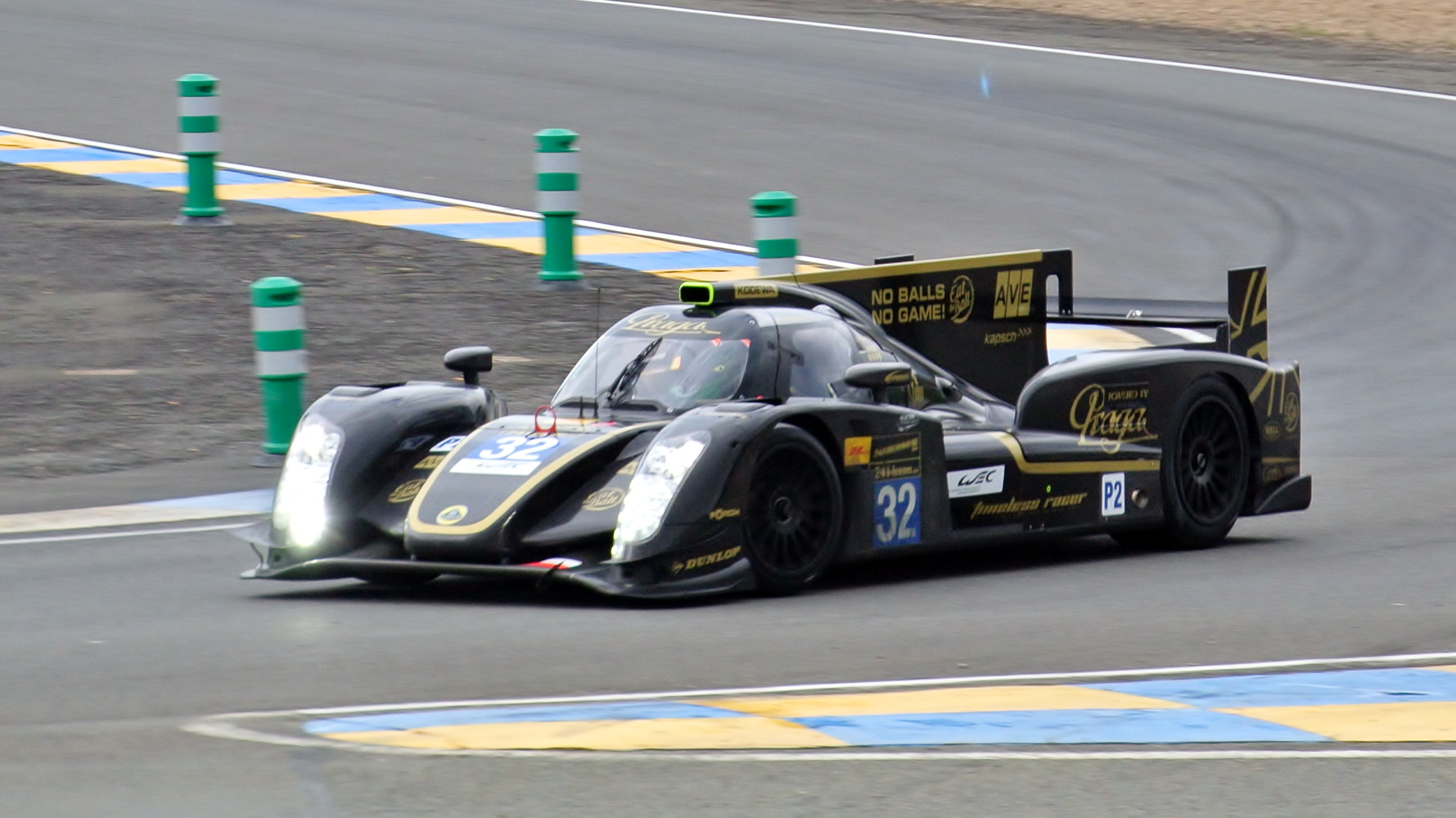 2013 Lotus T128 Praga. Car 32 retired 219 laps into the 24 hours of Le Mans 2013